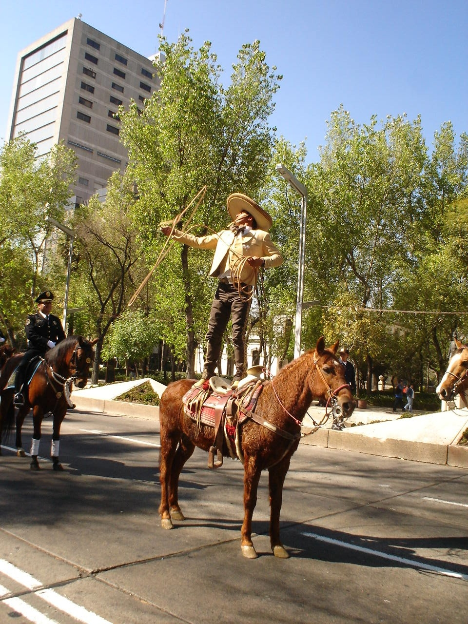 CHARRO HACIENDO SUERTES CON SU REATA